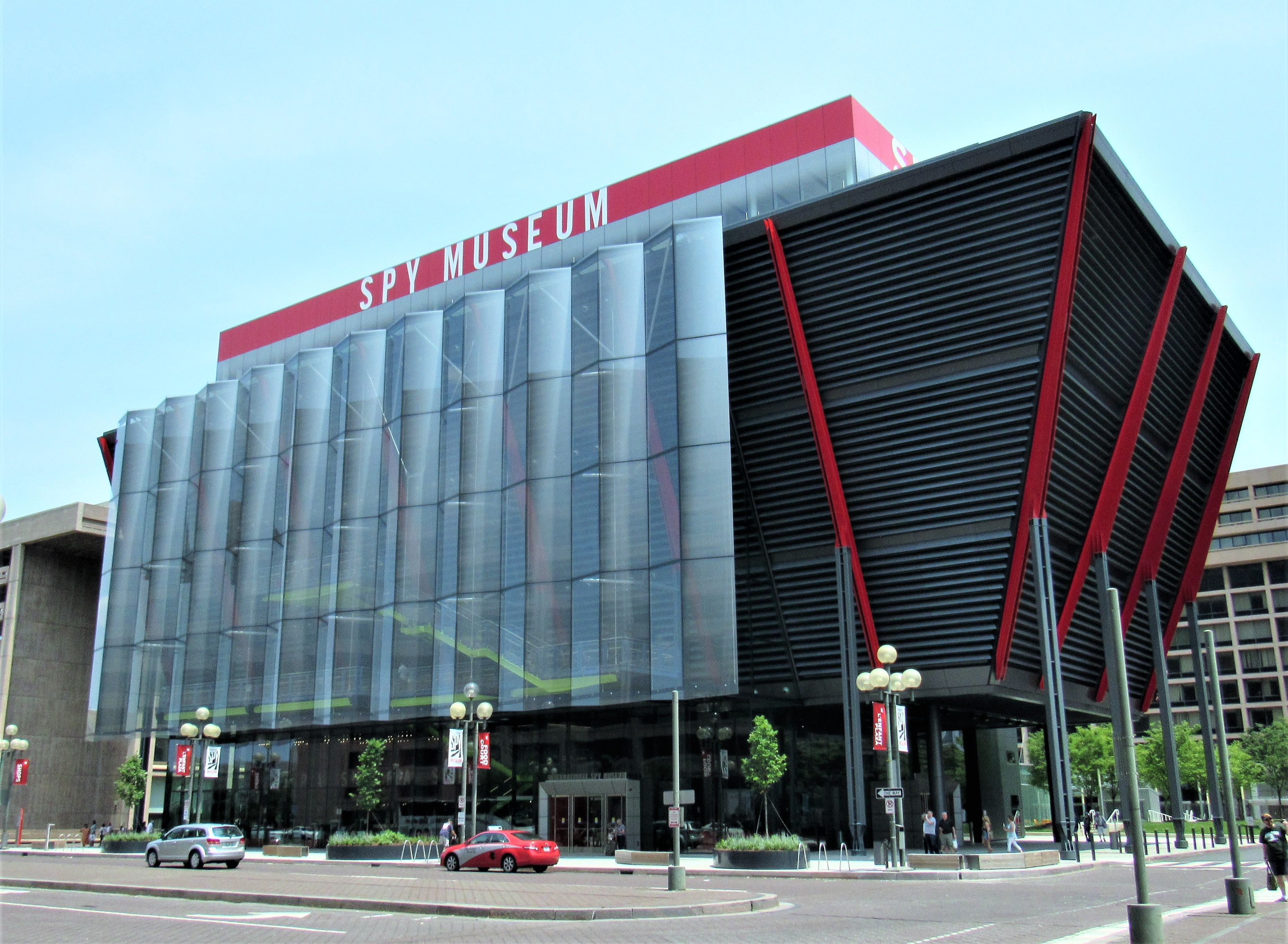 International Spy Museum at L'Enfant Plaza in Washington, D.C.